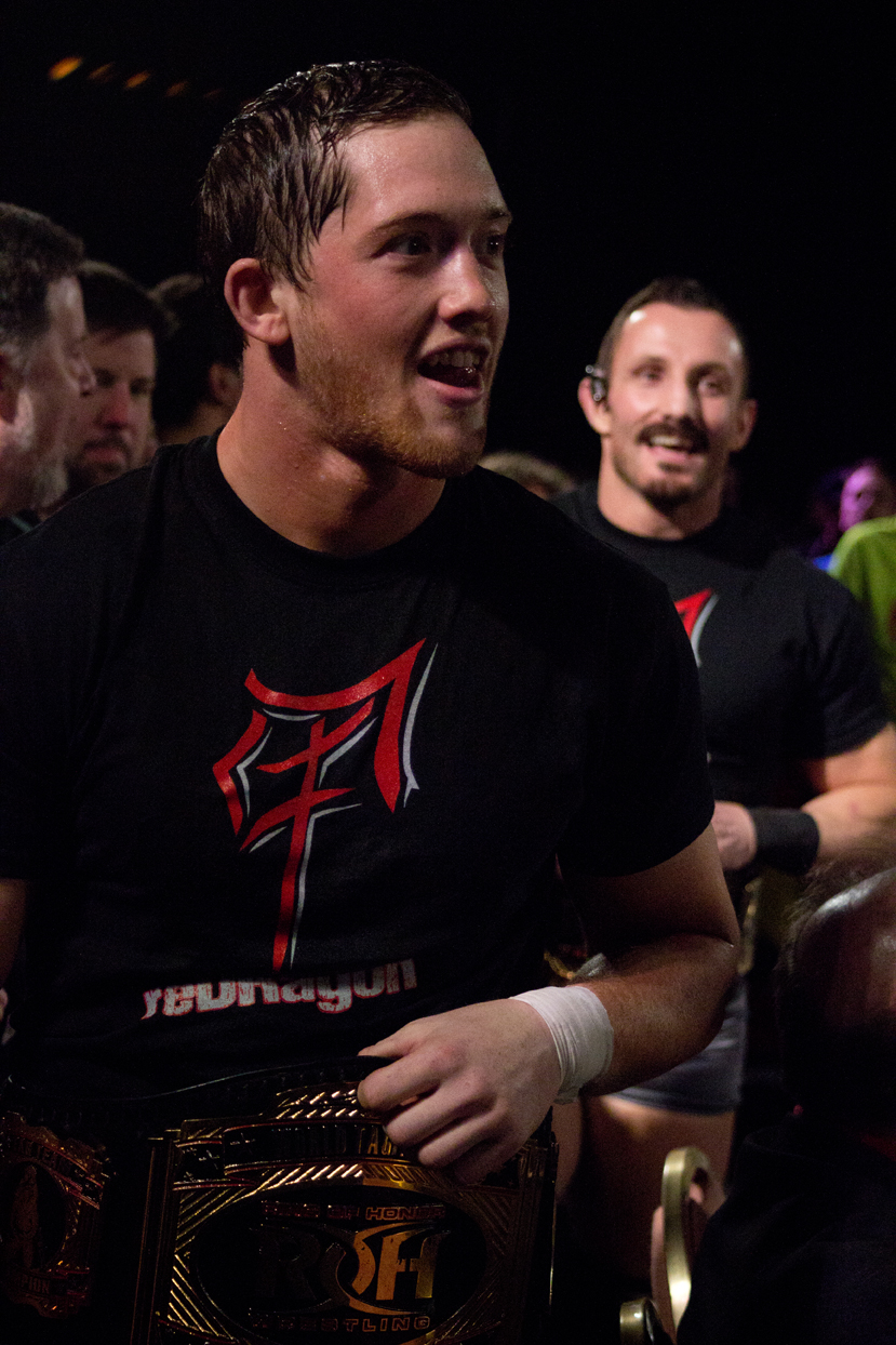 RoH Supercard of Honor VII